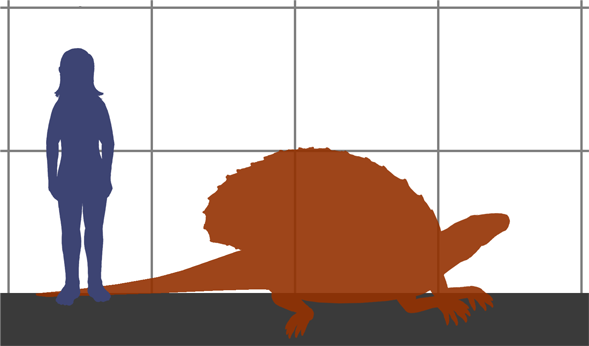 Size of the synapsid Edaphosaurus (3.5 meters), compared to a human.